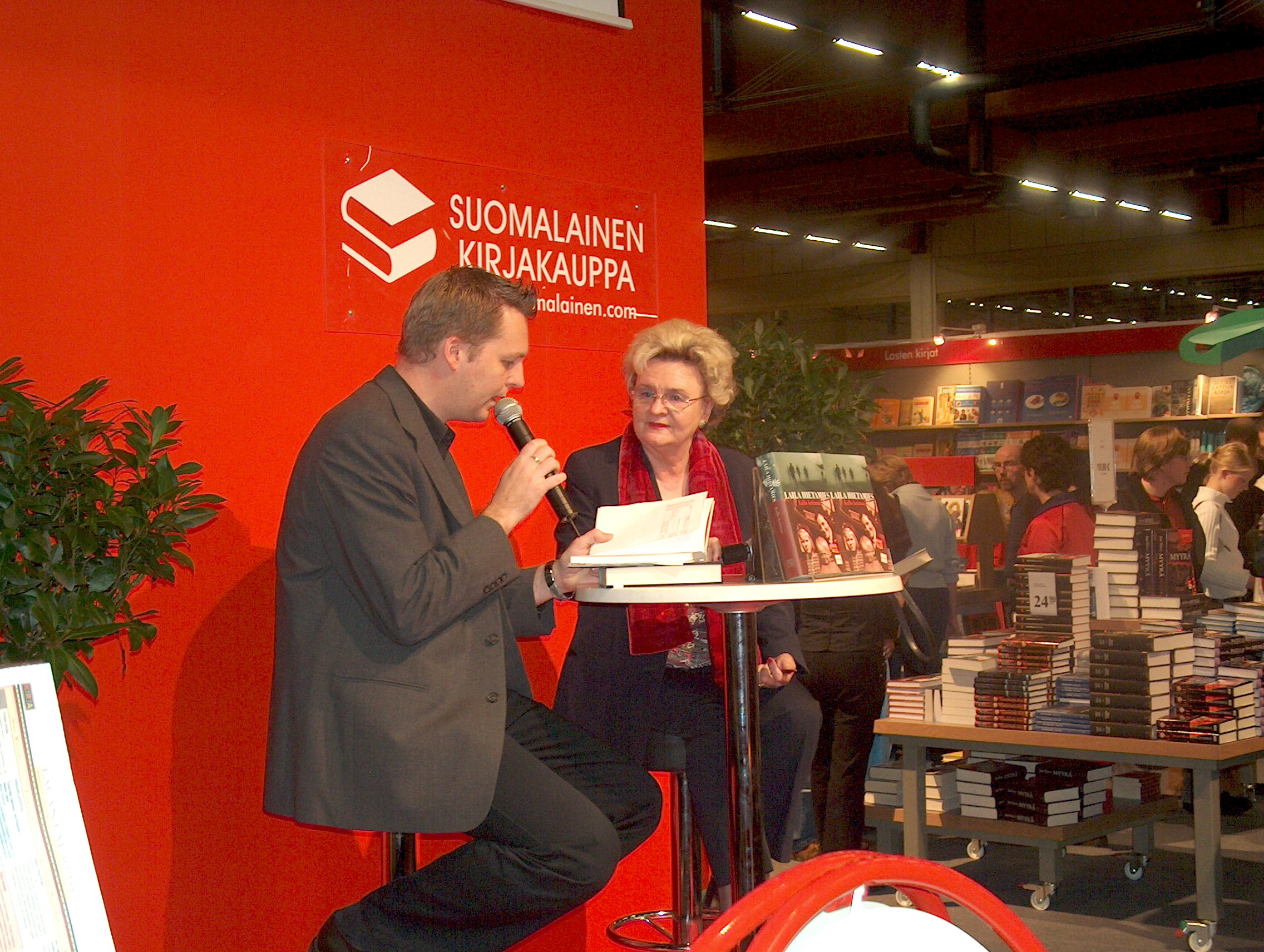 Laila Hietamies (now Hirvisaari) intervieved at the Helsinki Book Fair in 2004